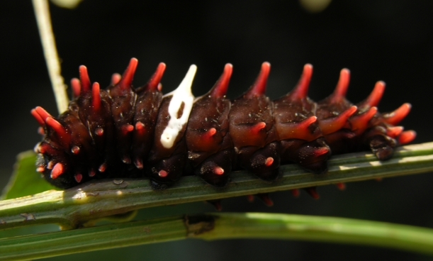 Common Rose caterpillar